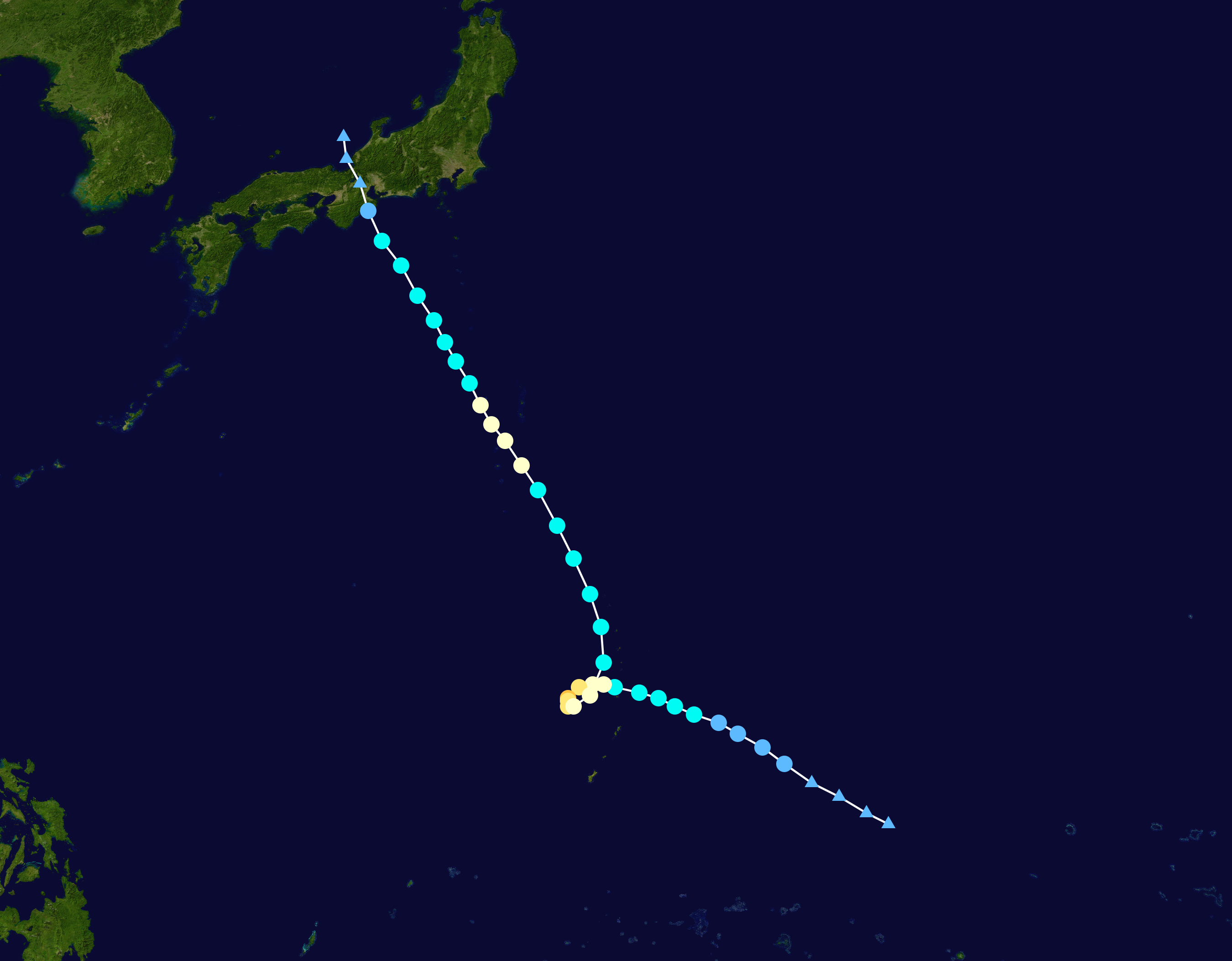 Track map of Typhoon Hester of the 1949 Pacific typhoon season. The points show the location of the storm at 6-hour intervals. The colour represents the storm's maximum sustained wind speeds as classified in the Saffir–Simpson scale (see below), and the shape of the data points represent the nature of the storm, according to the legend below. Saffir–Simpson scale Tropical depression≤38 mph≤62 km/h Category 3111–129 mph178–208 km/h Tropical storm39–73 mph63–118 km/h Category 4130–156 mph209–251 km/h Category 174–95 mph119–153 km/h Category 5≥157 mph≥252 km/h Category 296–110 mph154–177 km/h Unknown Storm type Tropical cyclone Subtropical cyclone Extratropical cyclone / Remnant low / Tropical disturbance / Monsoon depression